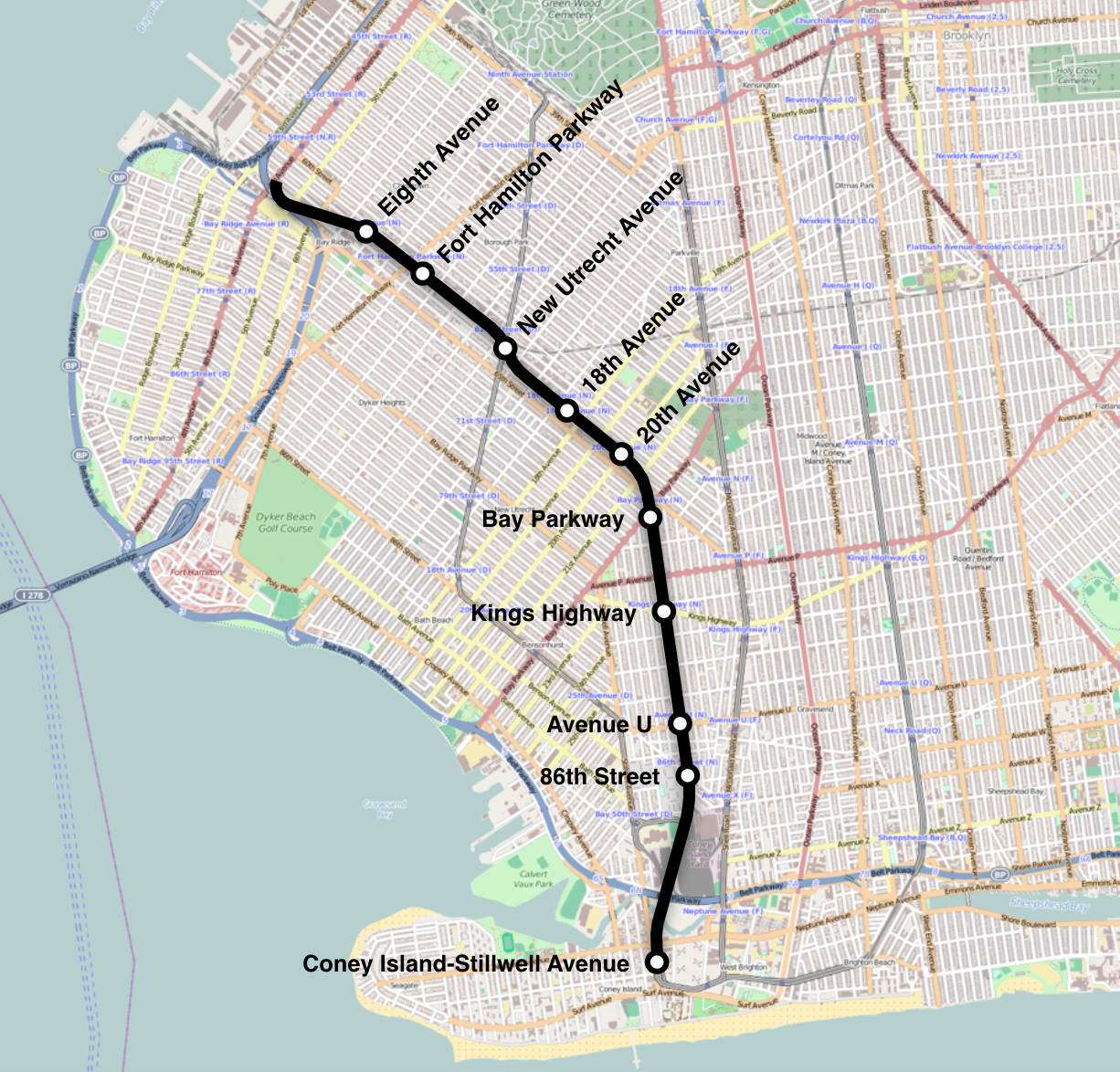 BMT Sea Beach Line map